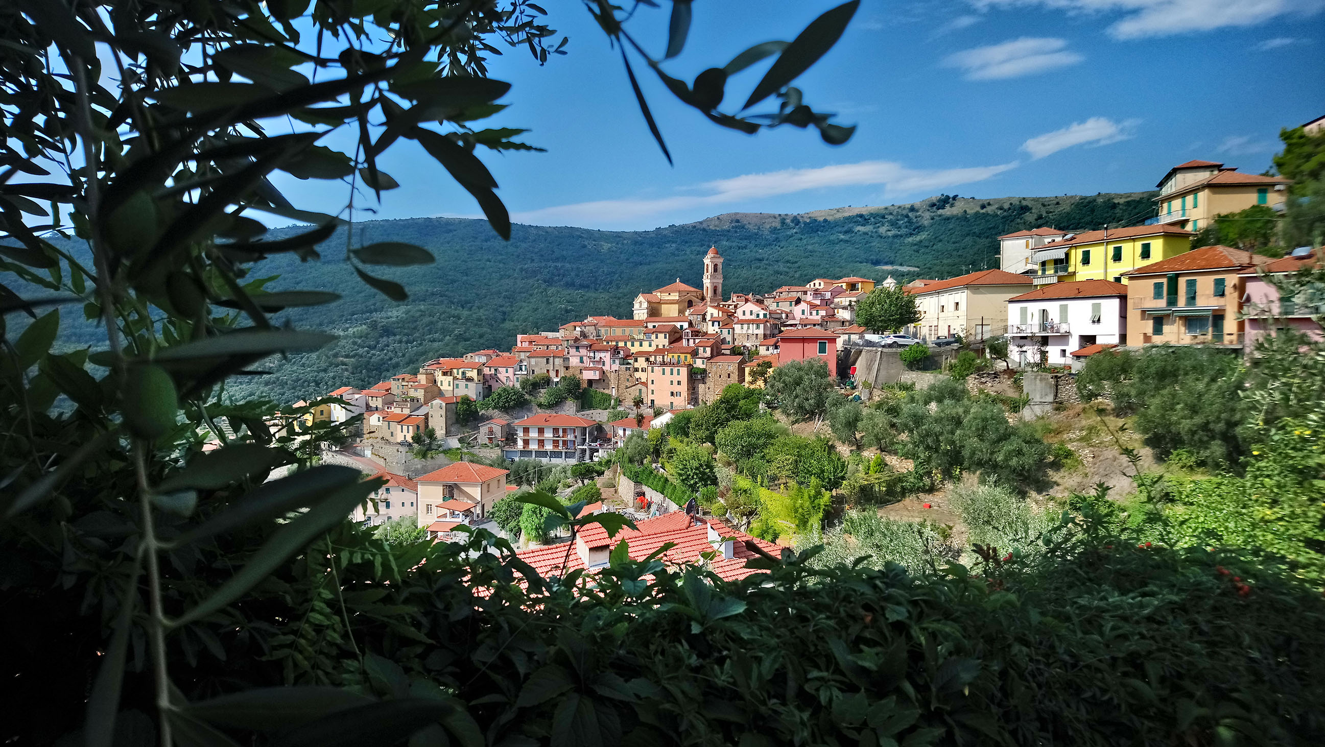 View upon Pietrabruna from Viale John Fitzgerald Kennedy